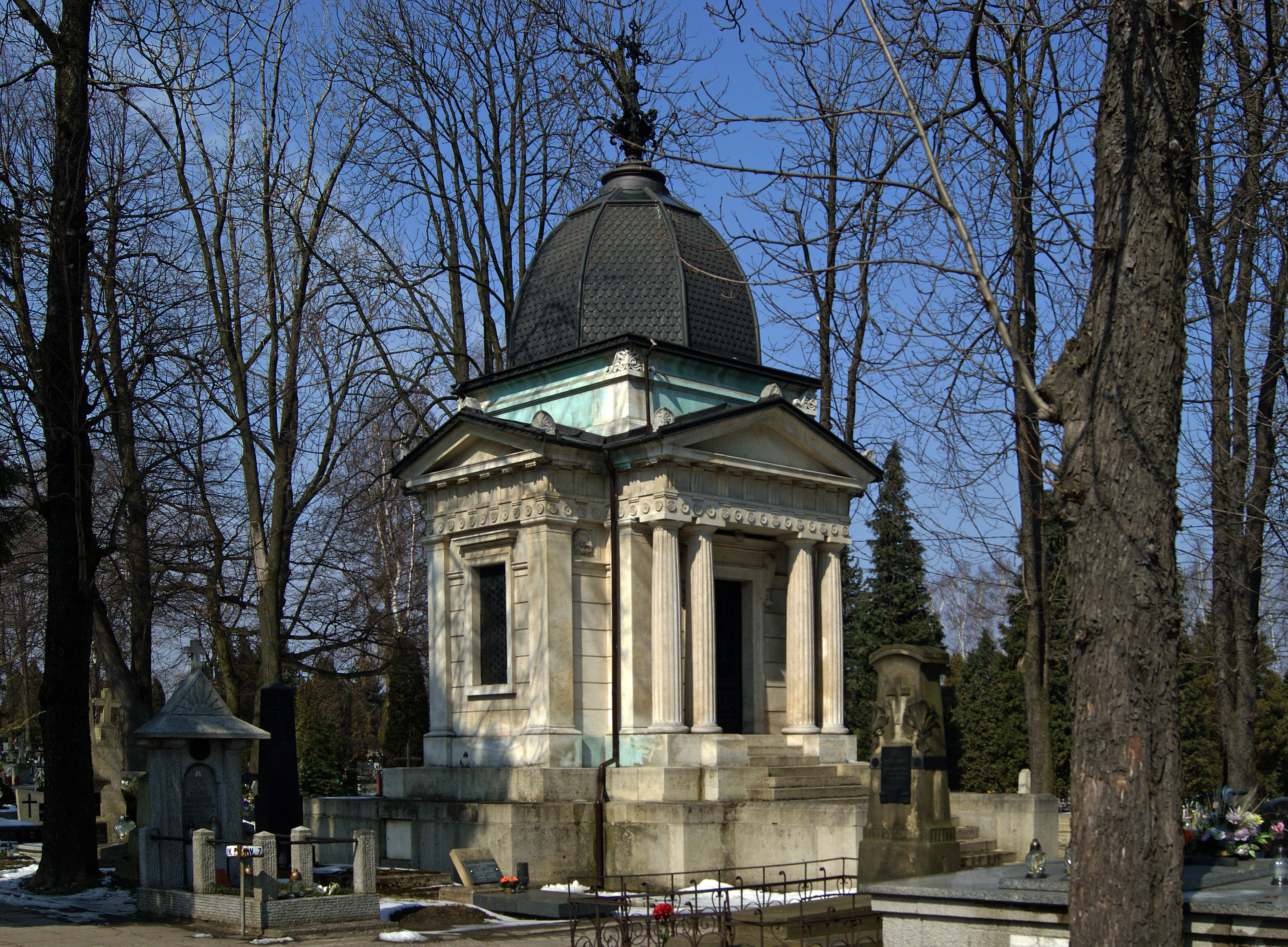 Parish cemetery, Loewenfeld Chapel, Marchetti street, City of Chrzanów, Lesser Poland Voivodeship, Poland